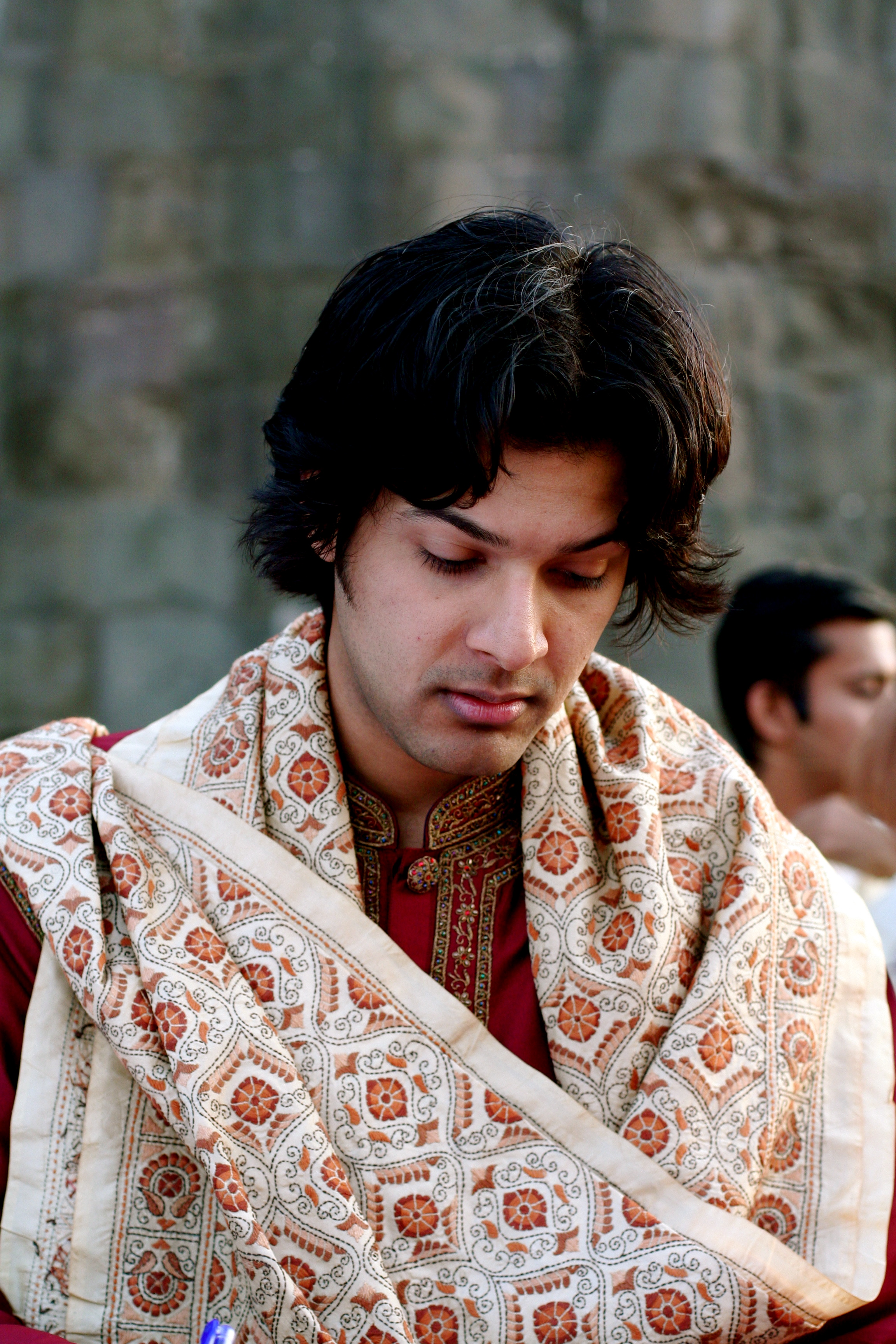 Ayaan Ali Khan at the Pune Festival 2007